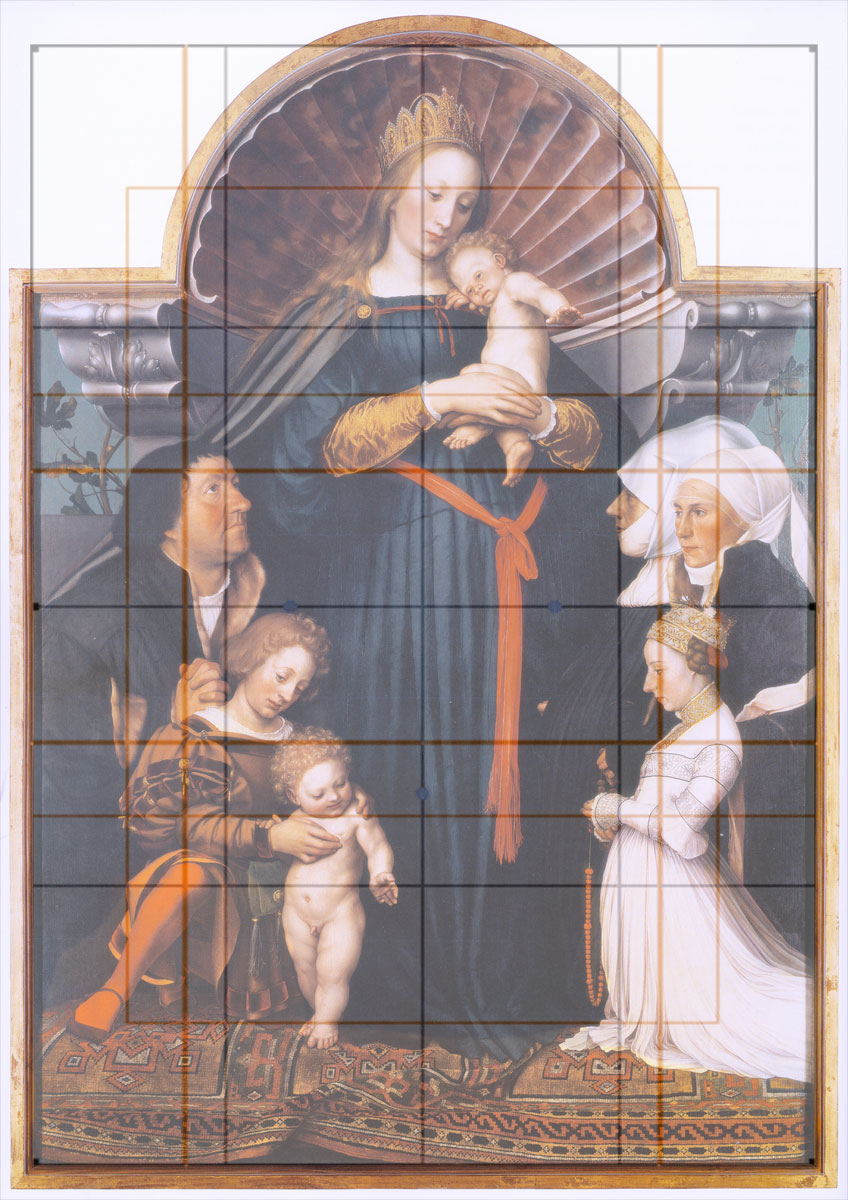 Darmstädter Madonna, with a overlay showing the golden ratio